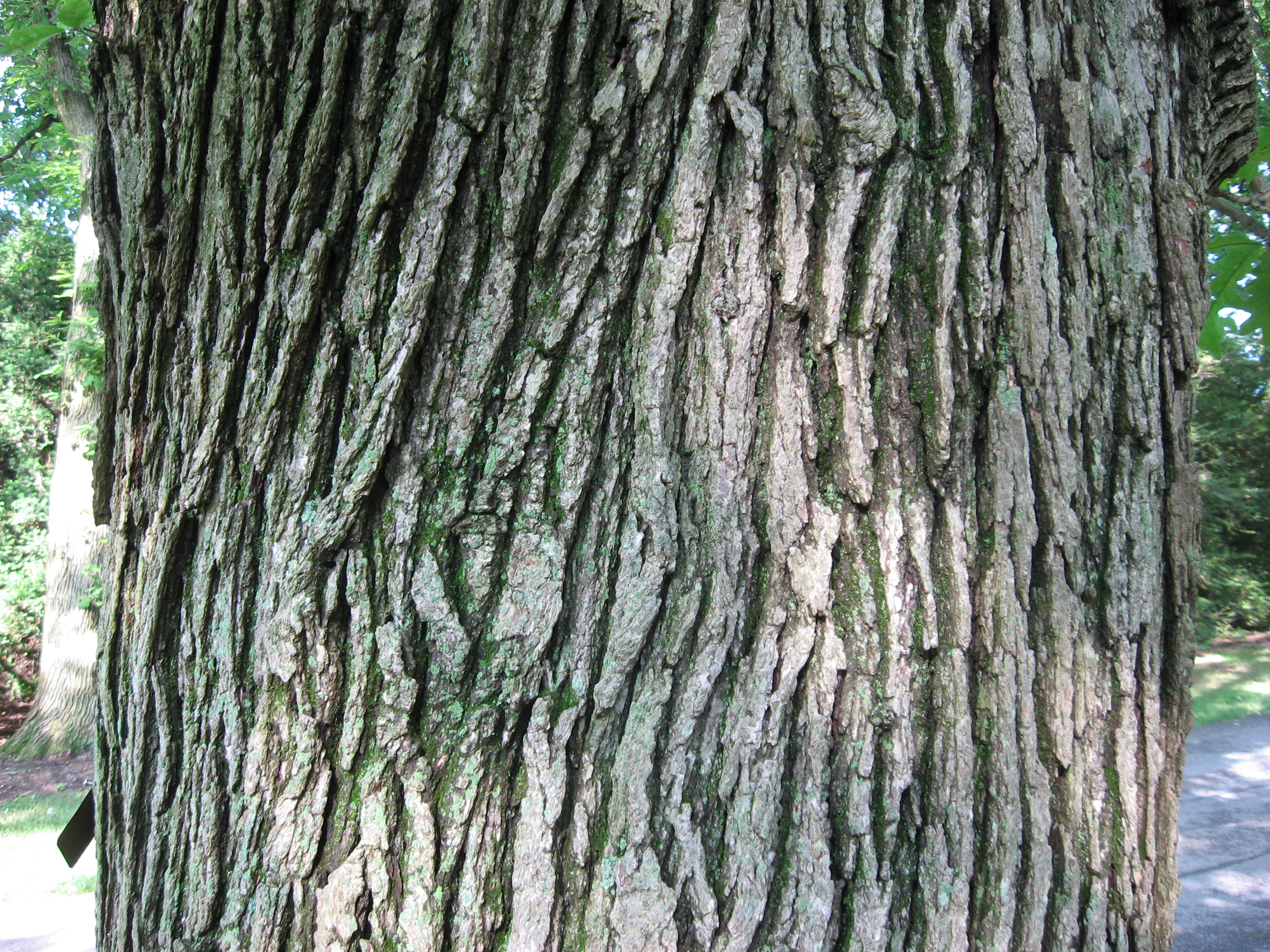 A picture of the bark of Quercus macrocarpa var. oliviformis.